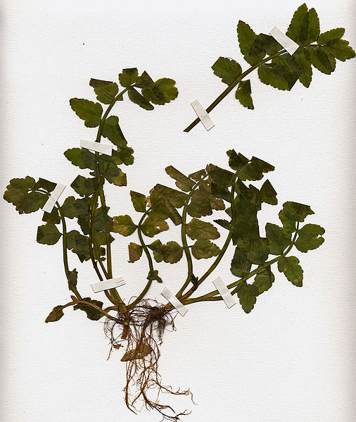 Apium nodiflorum (syn. Helosciadium nodiflorum). Veneto, provinzia di Treviso.